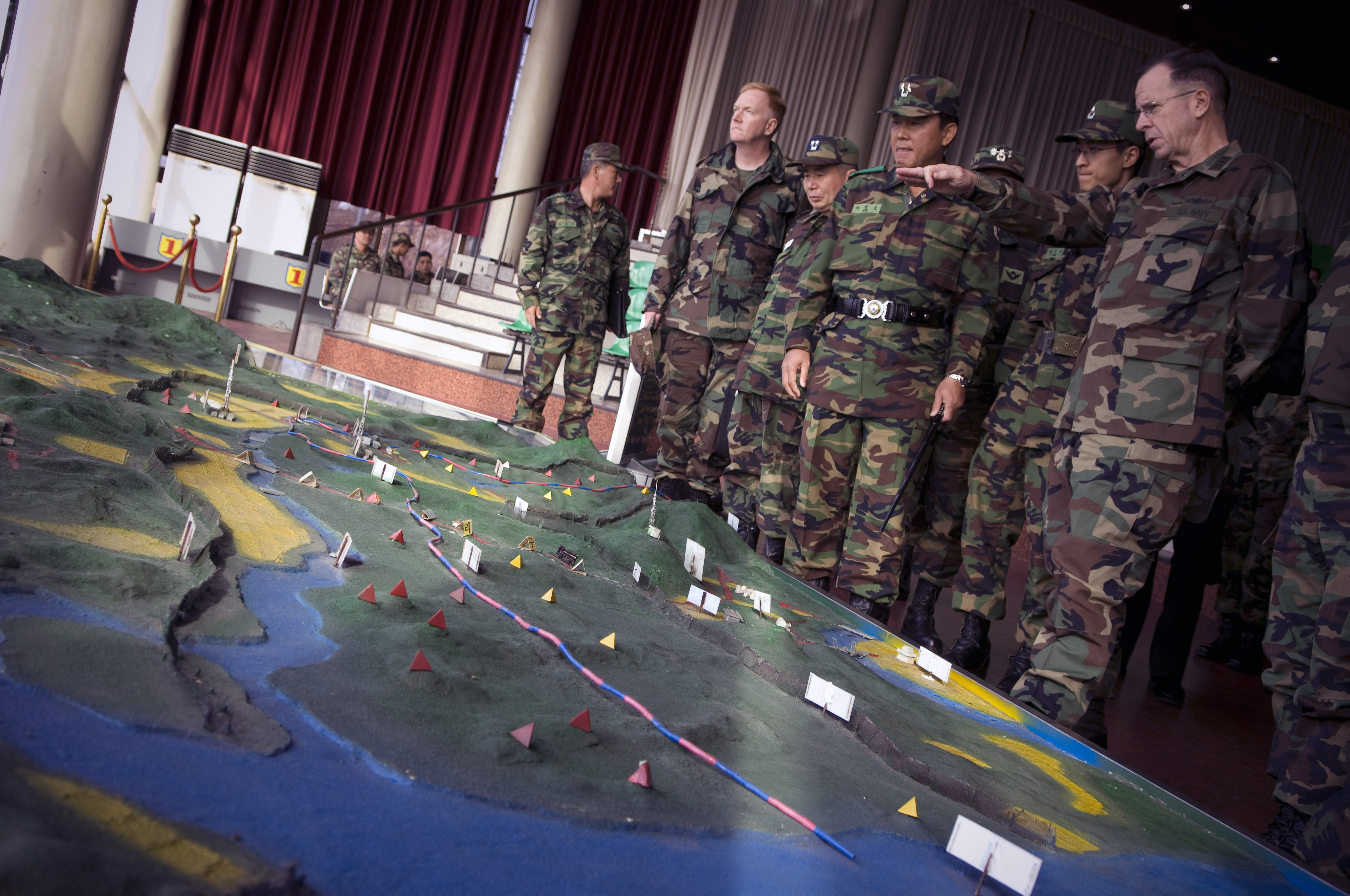 Chairman of the Joint Chiefs of Staff, Adm. Mike Mullen is shown a map of the Demilitarized Zone during a tour of the area separating North and South Korea (Text by US Navy).